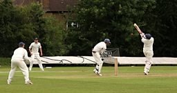 Cricket, Totteridge Village The batsman hooks at a bouncer. The cricket ground is sited on the side of the Dollis Valley and has a pronounced slope towards the southeast corner - definitely not a level playing field! In the distance the mast of Alexandra Palace can be seen.